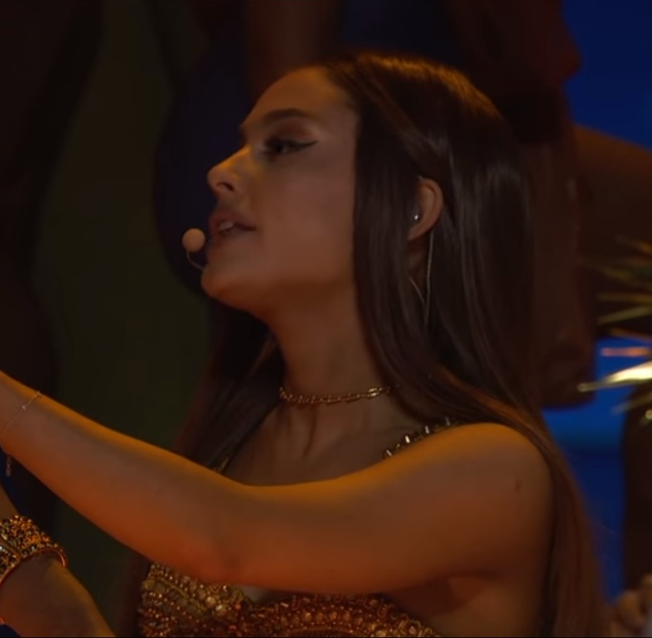 Ariana Grande performs "God Is A Woman" at the 2018 Video Music Awards in New York City.